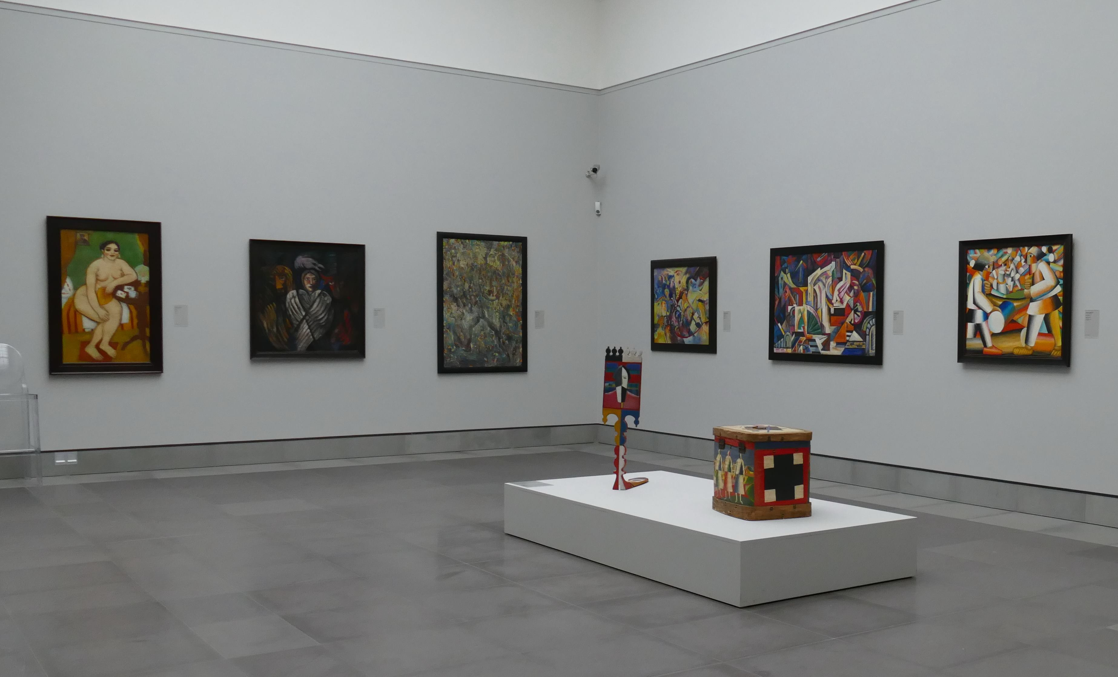 The hall of Russian avant-guard, The Museum of Fine Arts, Ghent